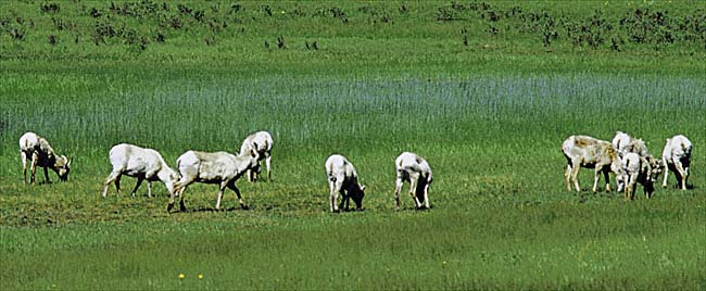 Rocky Mountain Sheep grazing near Sheep Lakes (Horseshoe Park) in June. The sheep come down from the high country, cross the road and graze for up to an hour or more before returning to the high mountains. In these sink holes, they seek mineral salts needed to sustain life, grow coats, horns and produce milk for the young. Courtesy of Rocky Mountain National Park""